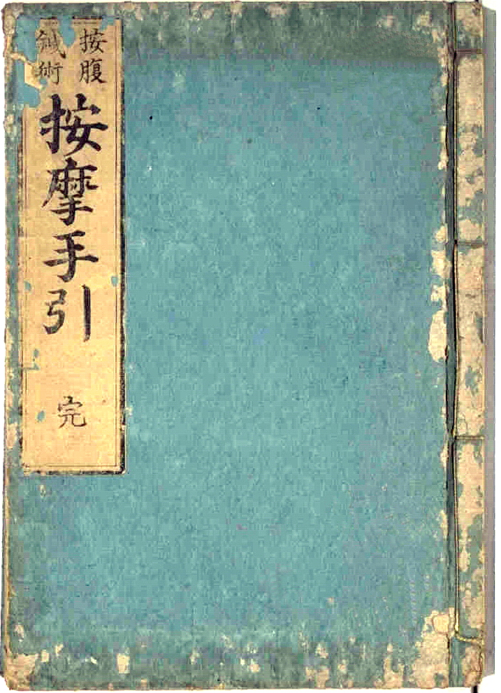 Anma Tebiki 按摩手引 (Anma's Hand Procedures) written by Fujibayashi Ryohaku in the early Edo period.